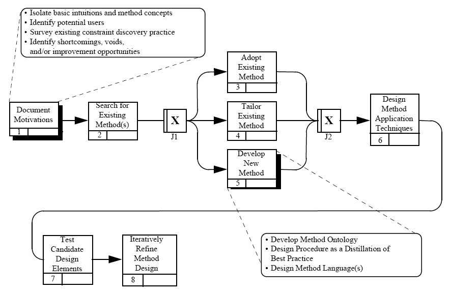 Method engineering process. This figure provides a process-oriented view of the approach used to develop prototype IDEF9 method concepts, a procedure, and candidate graphical and textual language elements. The figure uses the IDEF3 Process Description Capture method7 to describe this process where boxes with verb phrases represent activities, arrows represent precedence relationships, and “exclusive or” conditions among possible paths are represented by the junction boxes labeled with an “X.”